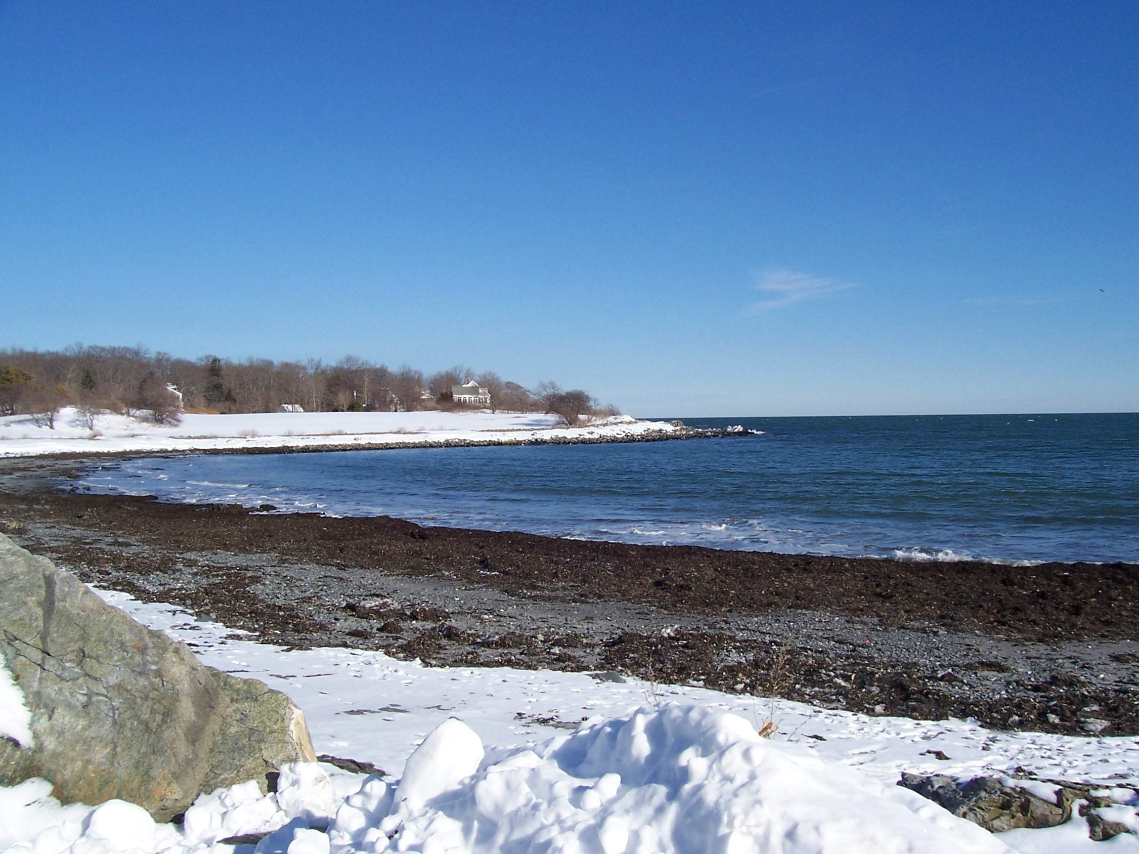 Kittery Point, Maine. The southernmost town in the state. Kittery Point is a census-designated place (CDP) in the town of Kittery, York County, Maine, United States. The population was 1,135 at the 2000 census. *Located beside the Atlantic, it is home to Fort McClary State Historic Site and, on Gerrish Island, Fort Foster Park. Cutts Island is home to Seapoint Beach and the Brave Boat Harbor Division of the Rachel Carson National Wildlife Refuge. Credits